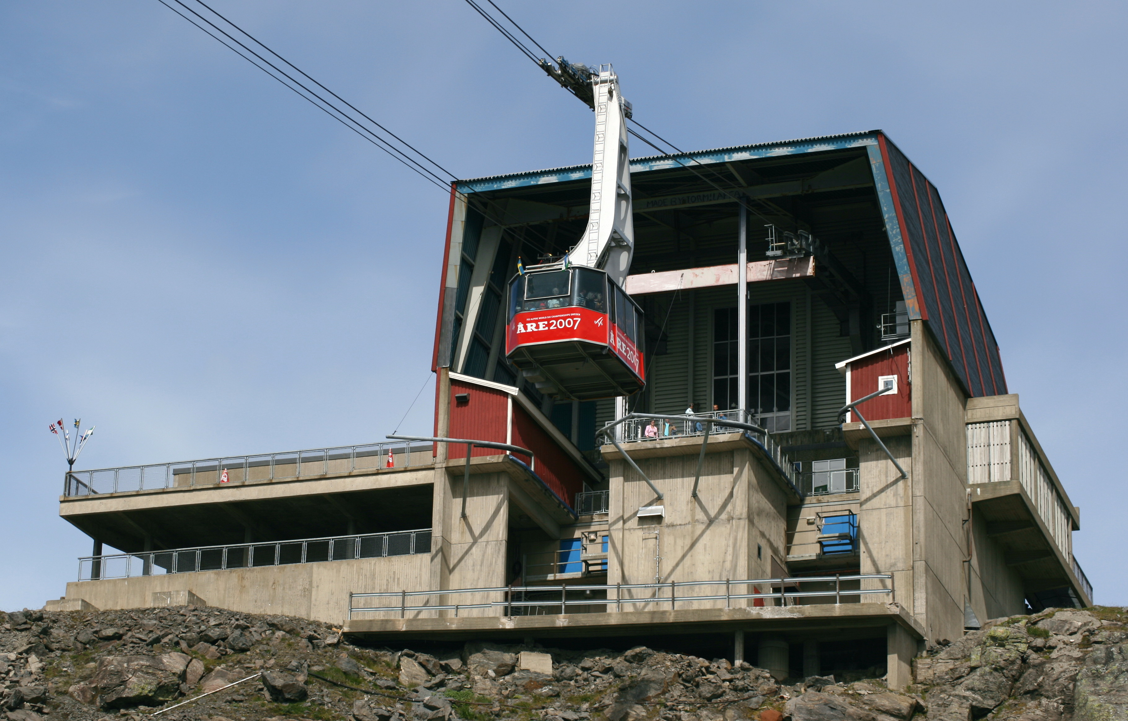 The top station of Åre Cabel car.